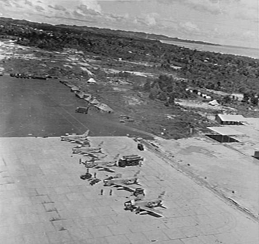 AN AERIAL VIEW OF LABUAN AIR BASE SHOWING NO.77 SQUADRON RAAF CAC CA-27 SABRE MK 32 FIGHTER AIRCRAFT, THE SQUADRON'S ACCOMMODATION, MAINTENANCE TENTS AND GROUND VEHICLES.